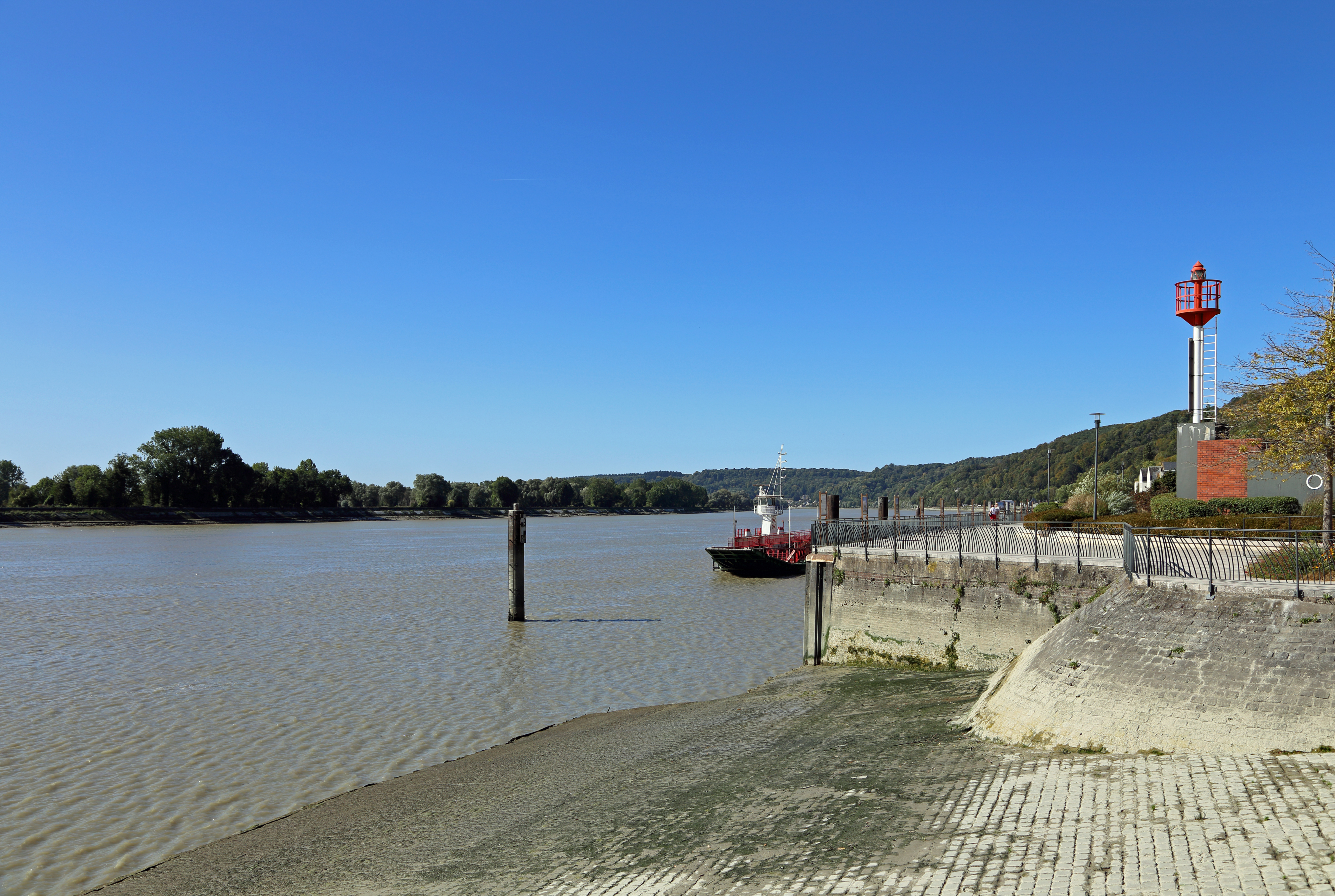 Caudebec-en-Caux (municipality of Rives-en-Seine, Seine-Maritime department, France): embankment of the Seine river